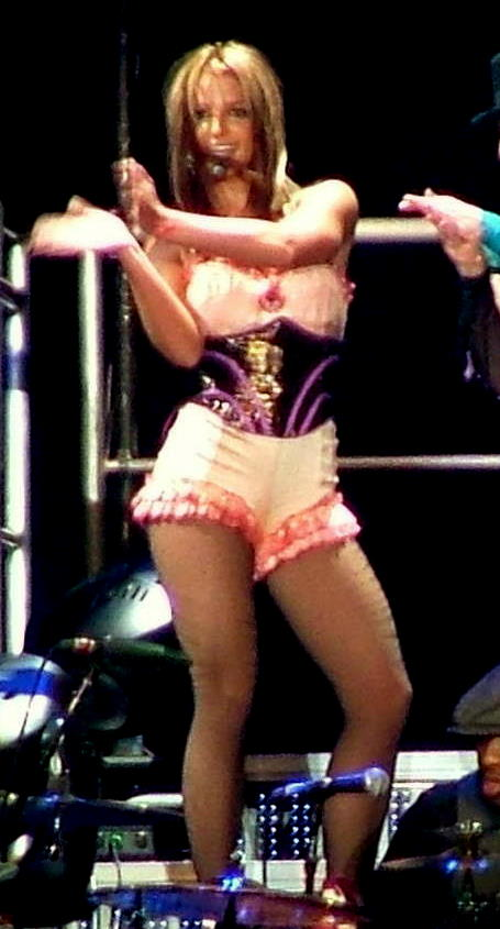 Britney Jean Spears performing crazy in 2004